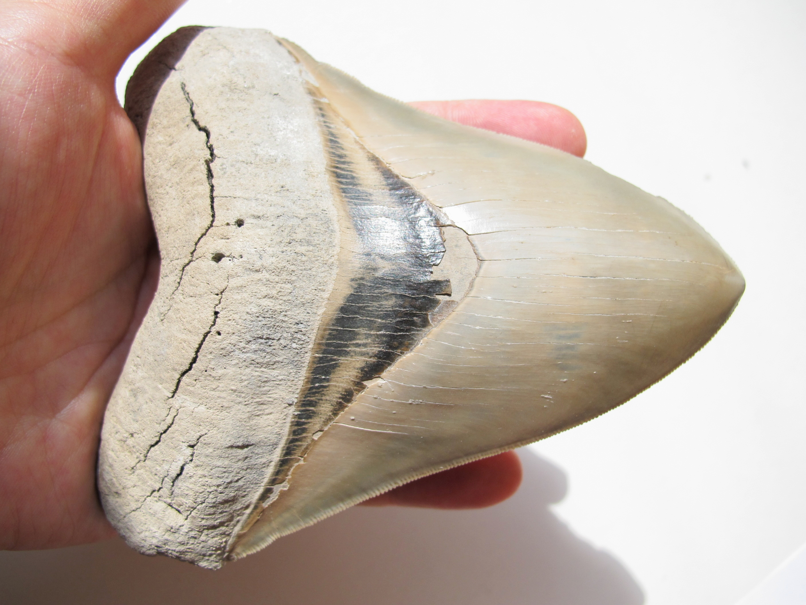 Tooth is 5.4 inches long, 4.4 inches wide. Excavated from Lee Creek Mine, Aurora, North Carolina, USA.